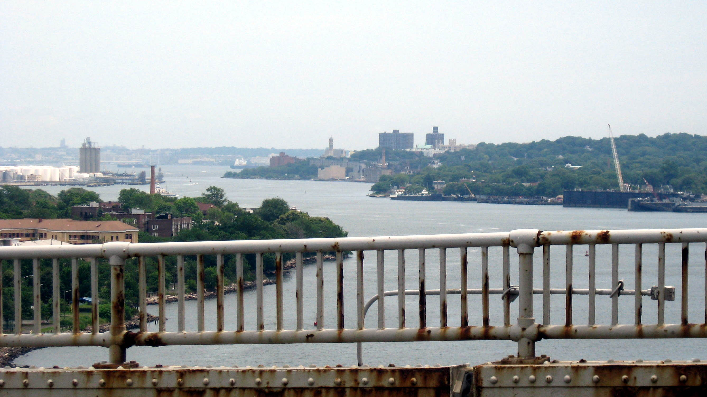 Looking east up Kill Van Kull from west side of Bayonne anchor of Bayonne Bridge on a cloudy afternoon.